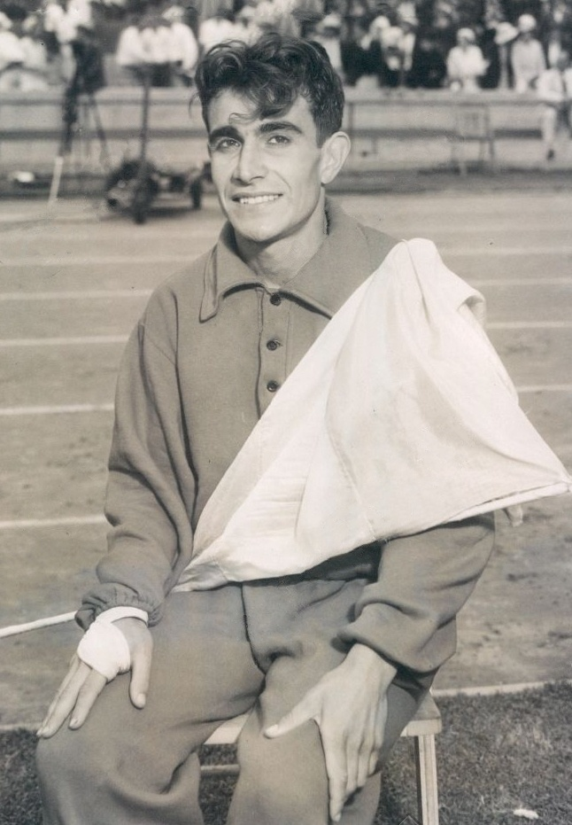 1932 Juan Zabala Marathon Gold Medalist Los Angeles Olympic Stadium Press Photo